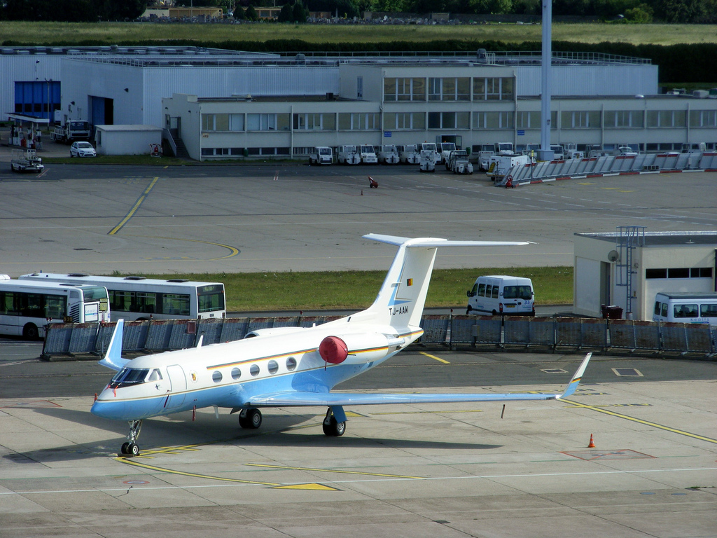 Cameroon Government Gulfstream III at Orly Airport, Paris, France.